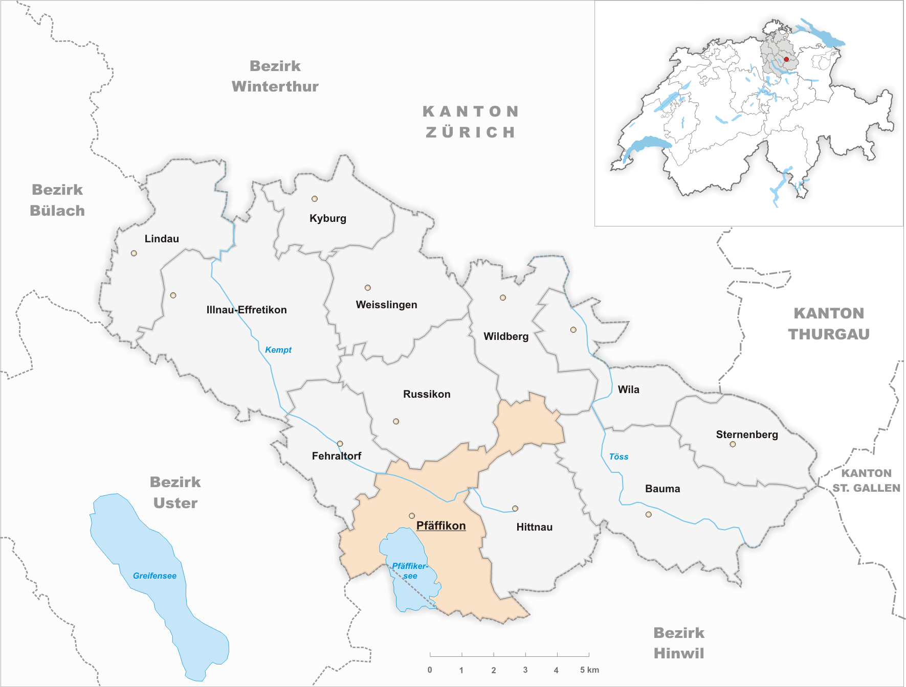 Municipality Pfäffikon